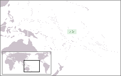 Location map for the Phoenix Islands within Kiribati.